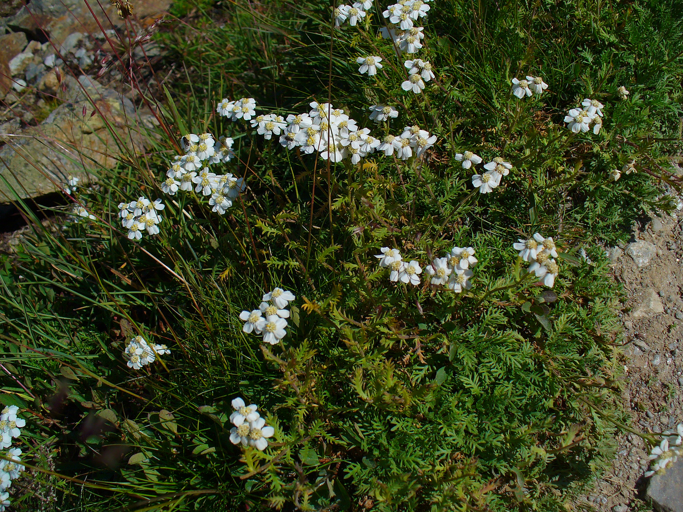 Achillea atrata, Asteraceae, Black Yarrow, habitus; Muottas Muragl, Engadin, Switzerland, altitude ca. 2400 m